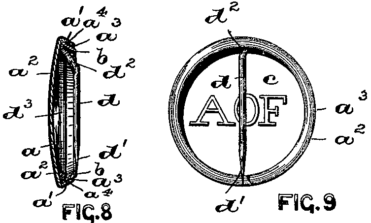 "Badge Pin or Button" US Patent number 564356 (partial), issued to George B. Adams Assignor to the Whitehead & Hoag Company of Newark, New Jersey